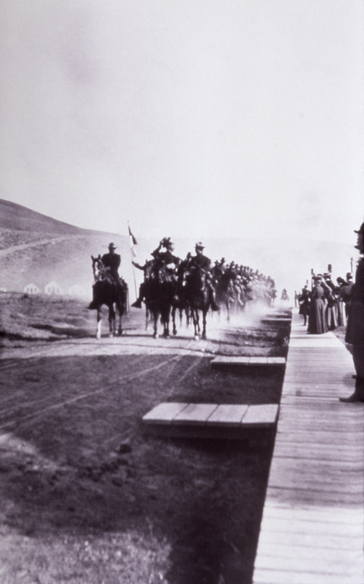 Company M, 1st Cavalry, marching into Mammoth, Yellowstone National Park, August 1886